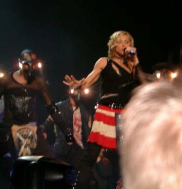 Madonna - Sept 2001 - Los Angeles